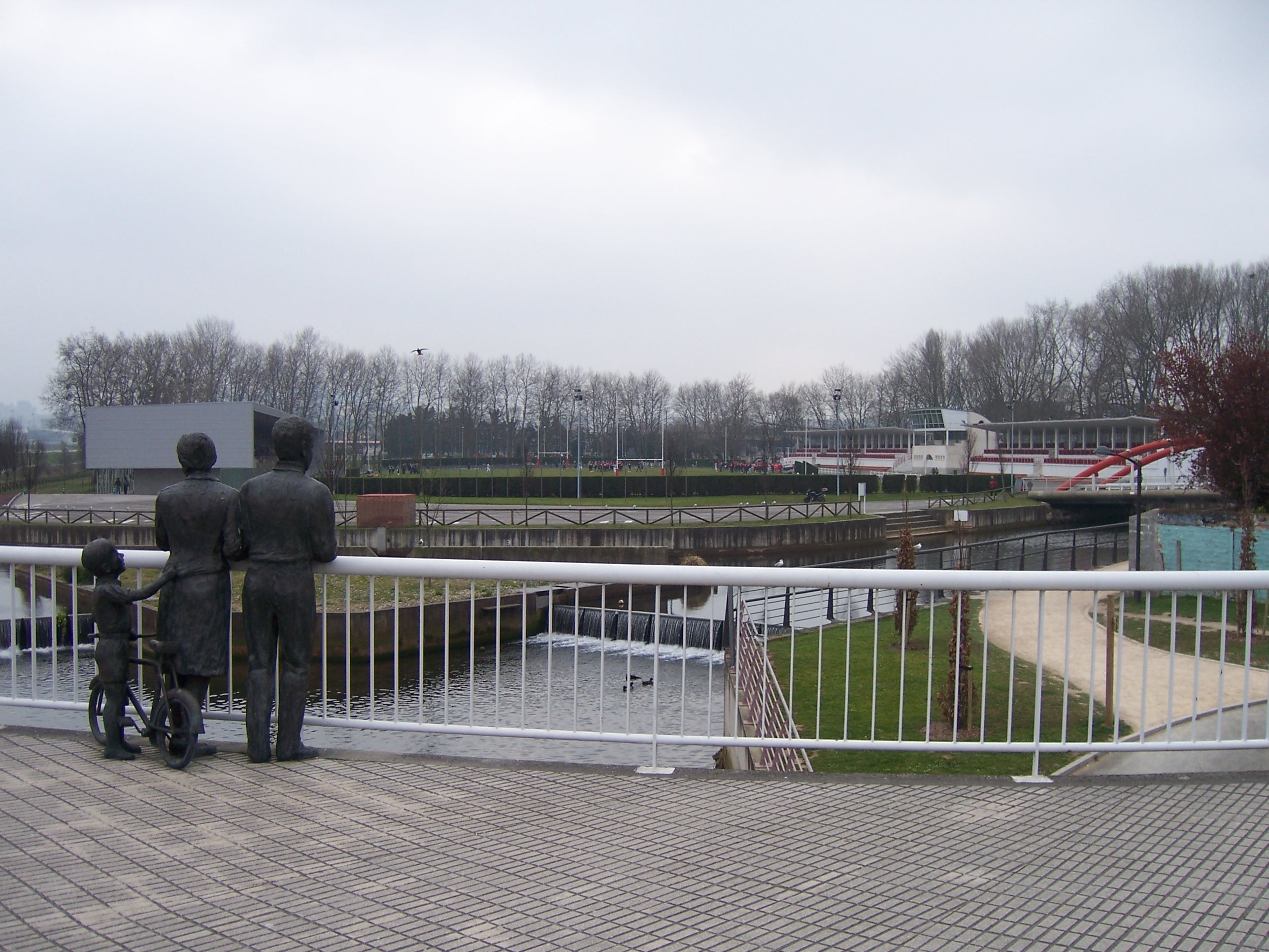 Las Mestas Athletic Complex